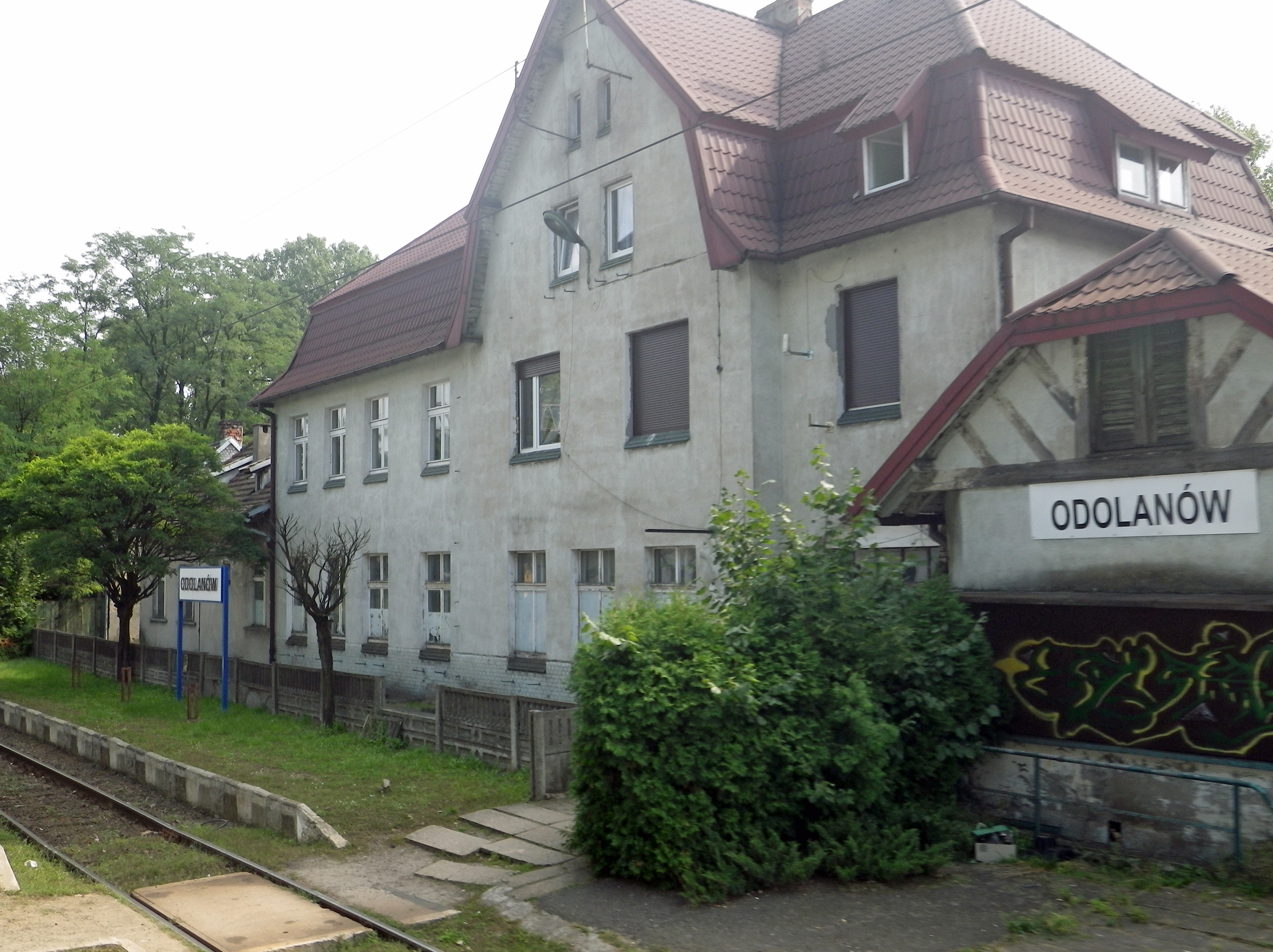 Odolanów train station (Greater Poland Voivodeship)